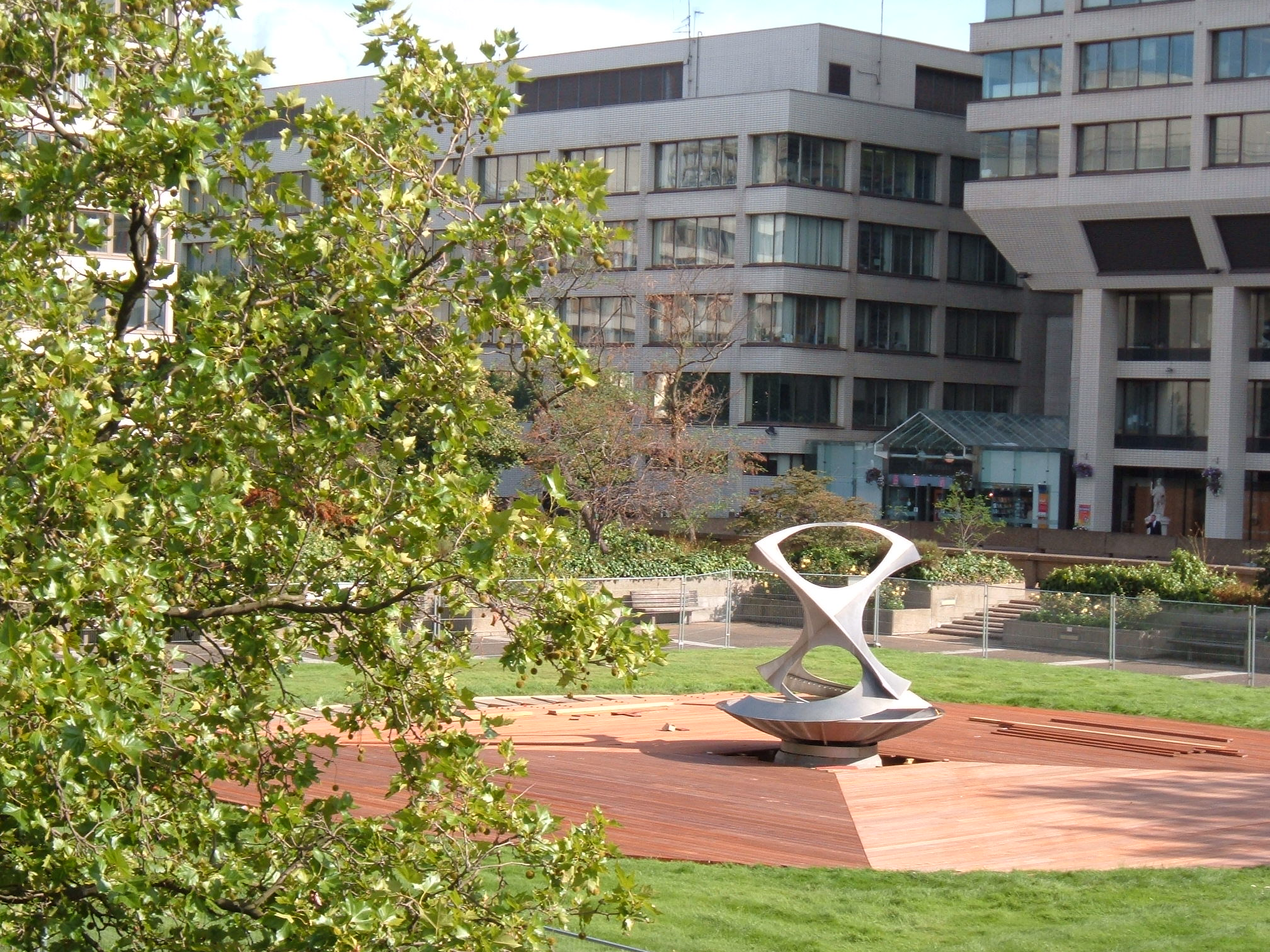 Sculpture/fountain by Naum Gabo at Guy's and St Thomas's Hospital, London, U.K.